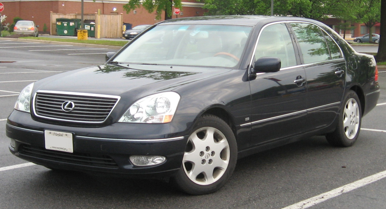 2001-2003 Lexus LS430 photographed in USA; modified version of original photo (cropped)